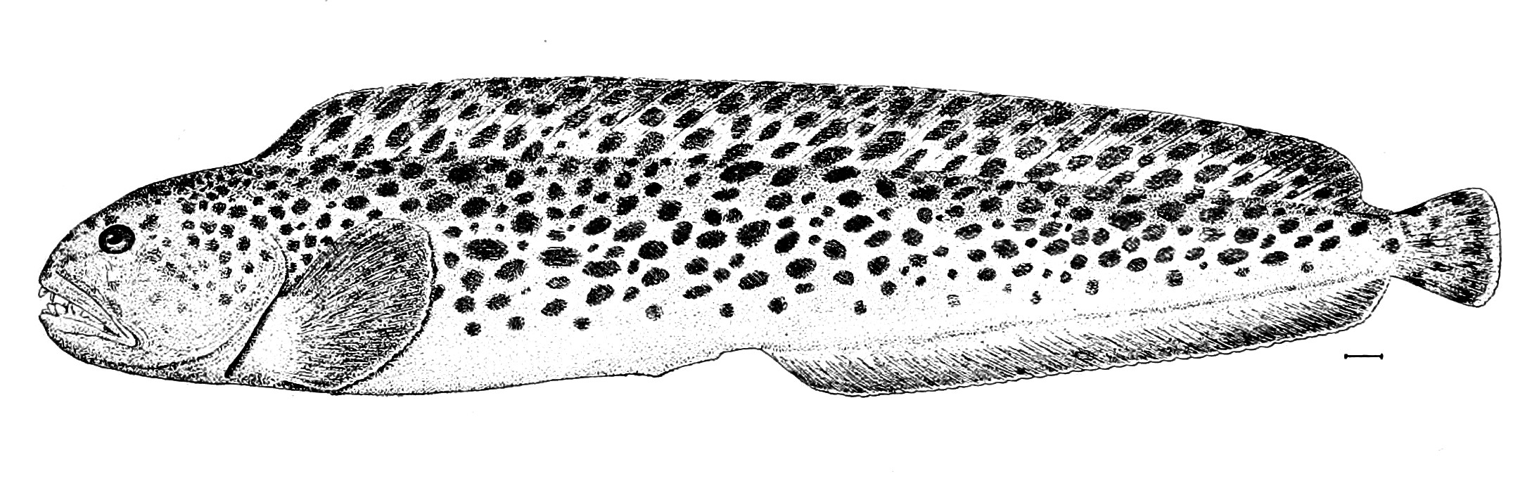 Spotted wolffish, Anarhichas minor